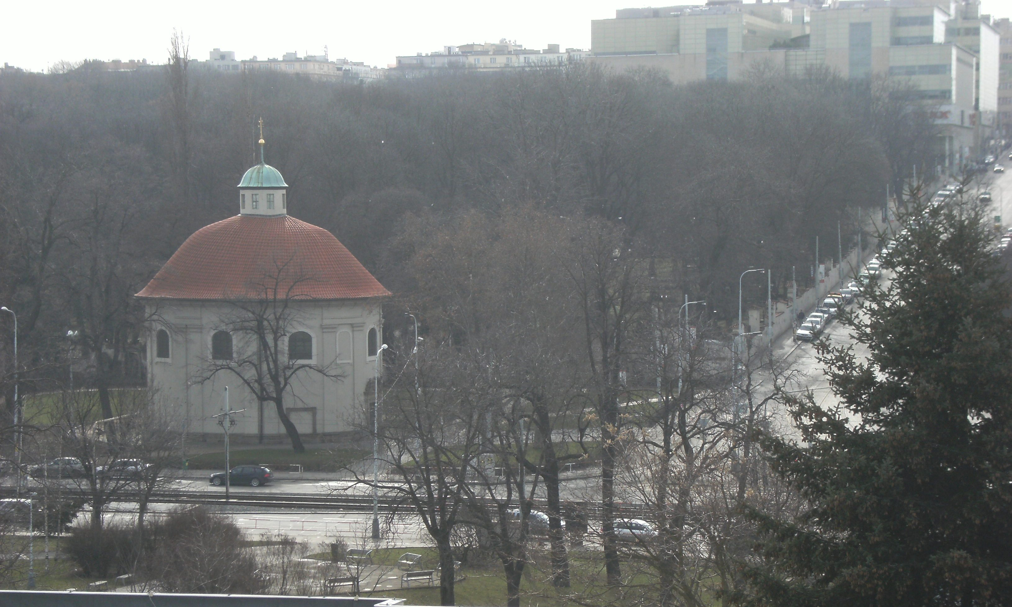 View of the Church of St. Roch from Holy Cross Hill in Žižkov, Prague, Czech Republic.